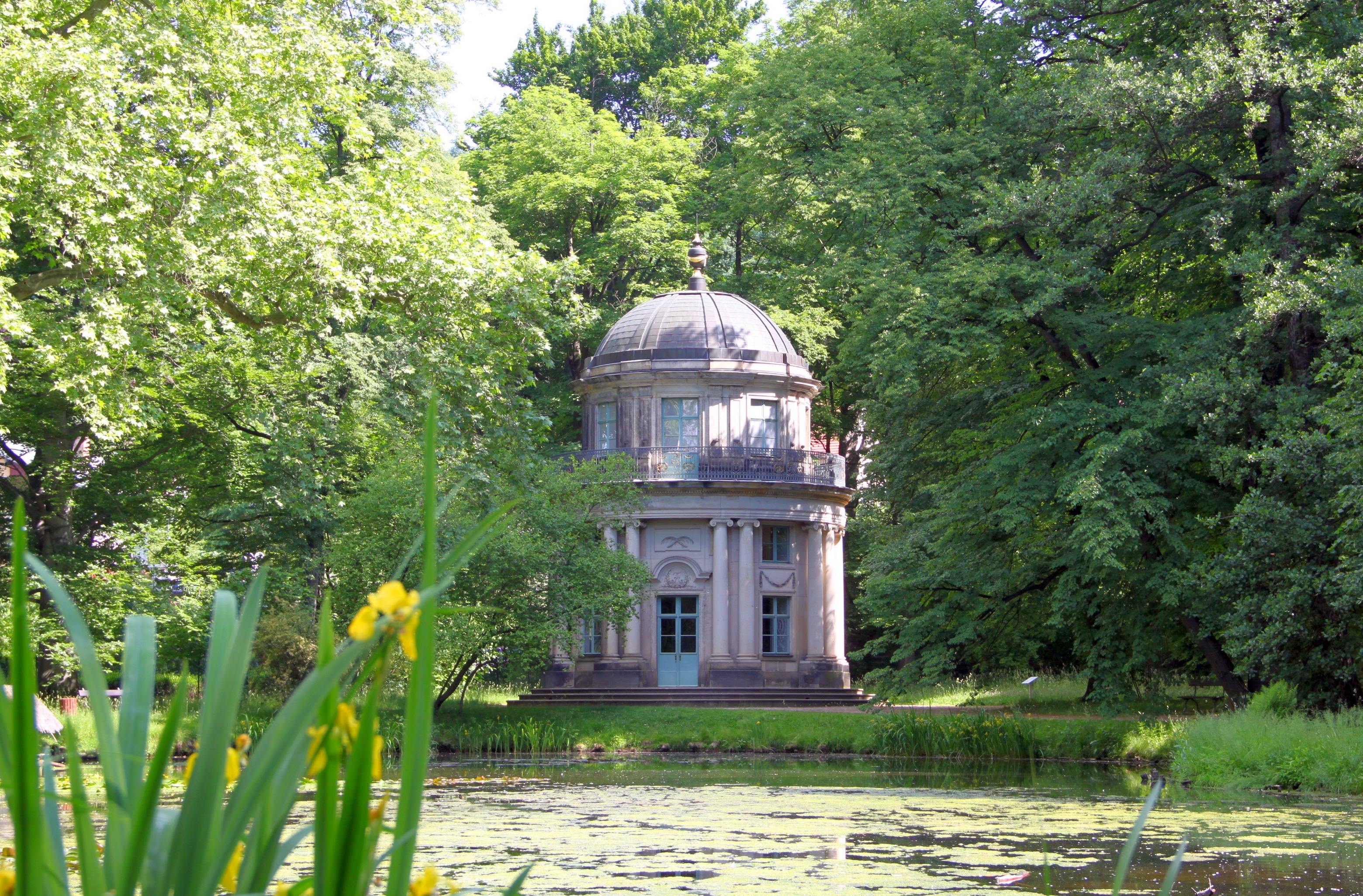 English pavilion in the garden of Pillnitz castle